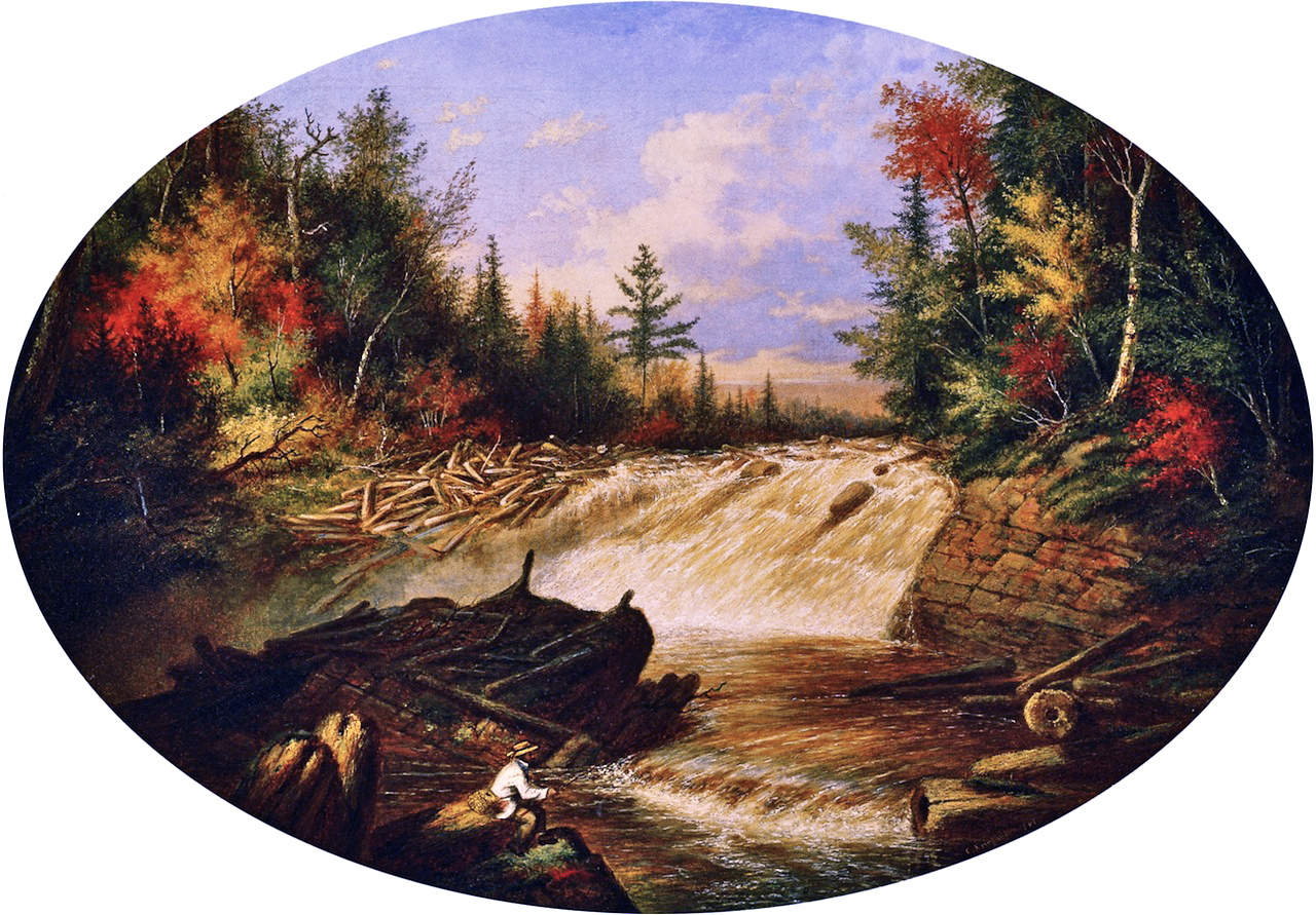 Landscape paintings showing one of the waterfalls along the little Shawinigan River. It is the waterfall near the Drew bridge, in Shawinigan.